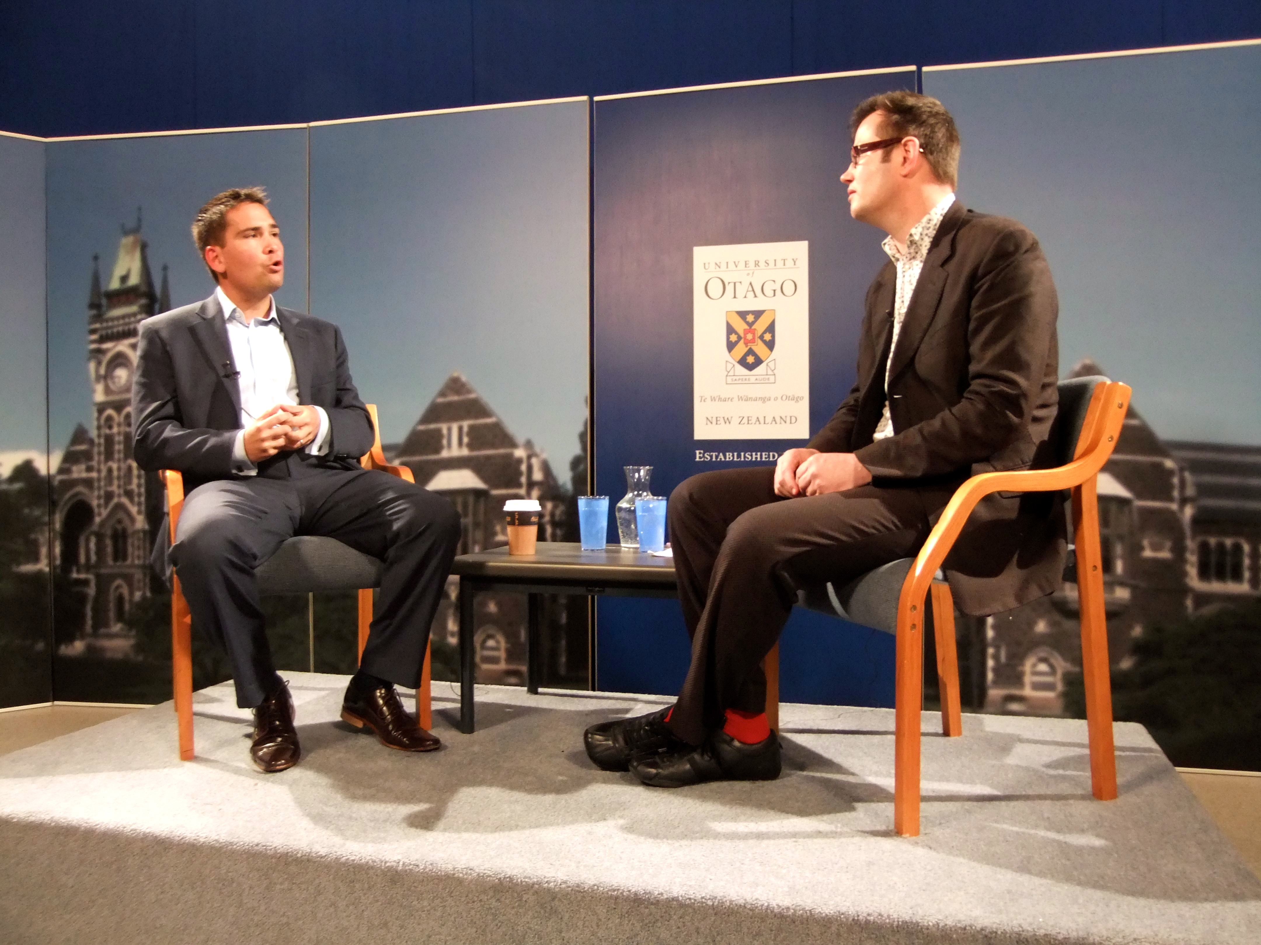 Bryce Edwards talking to the National Party's Simon Bridges in a University of Otago 'Vote Chat' election year forum in 2011.